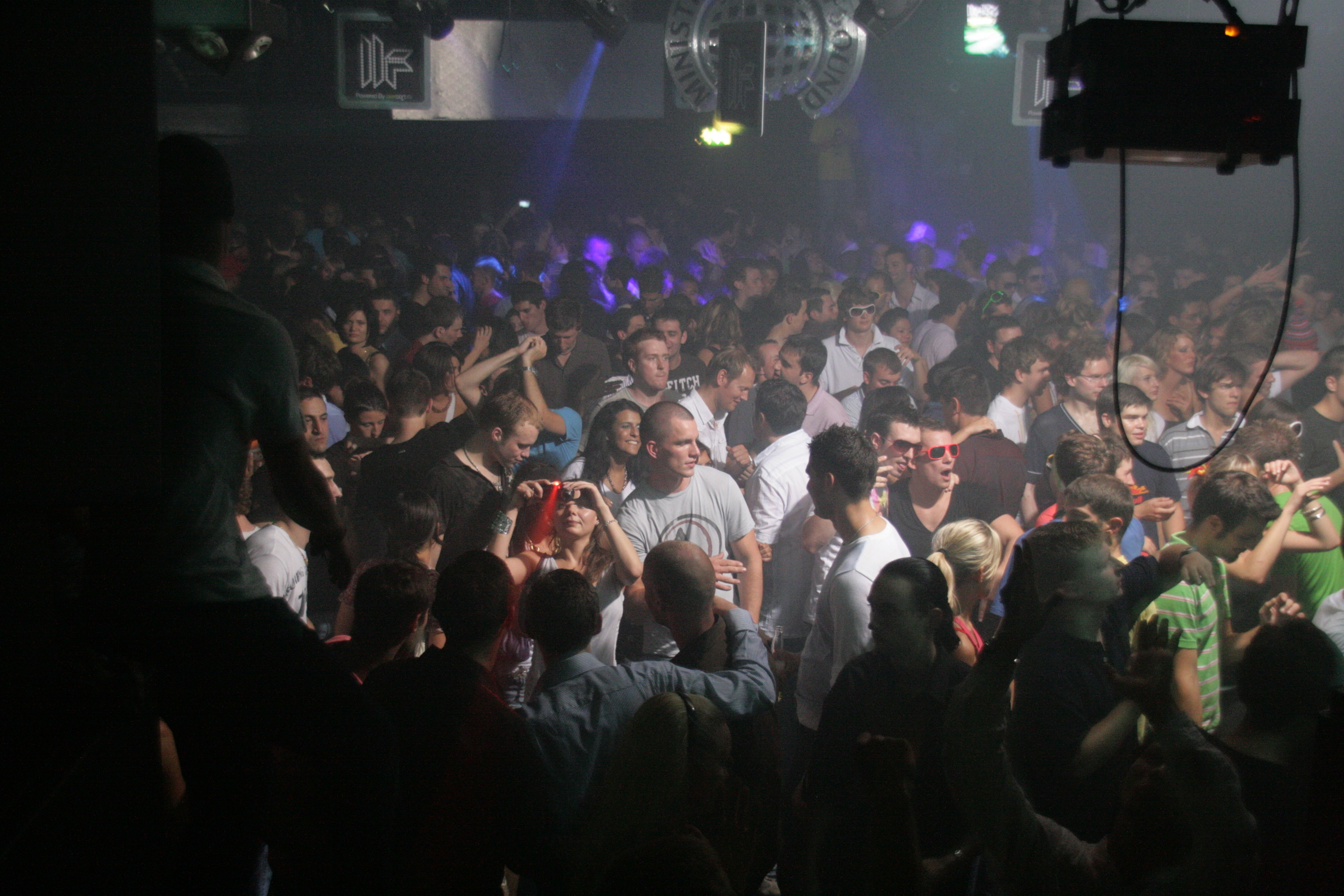 Toolroom Knights @ Ministry of Sound in London